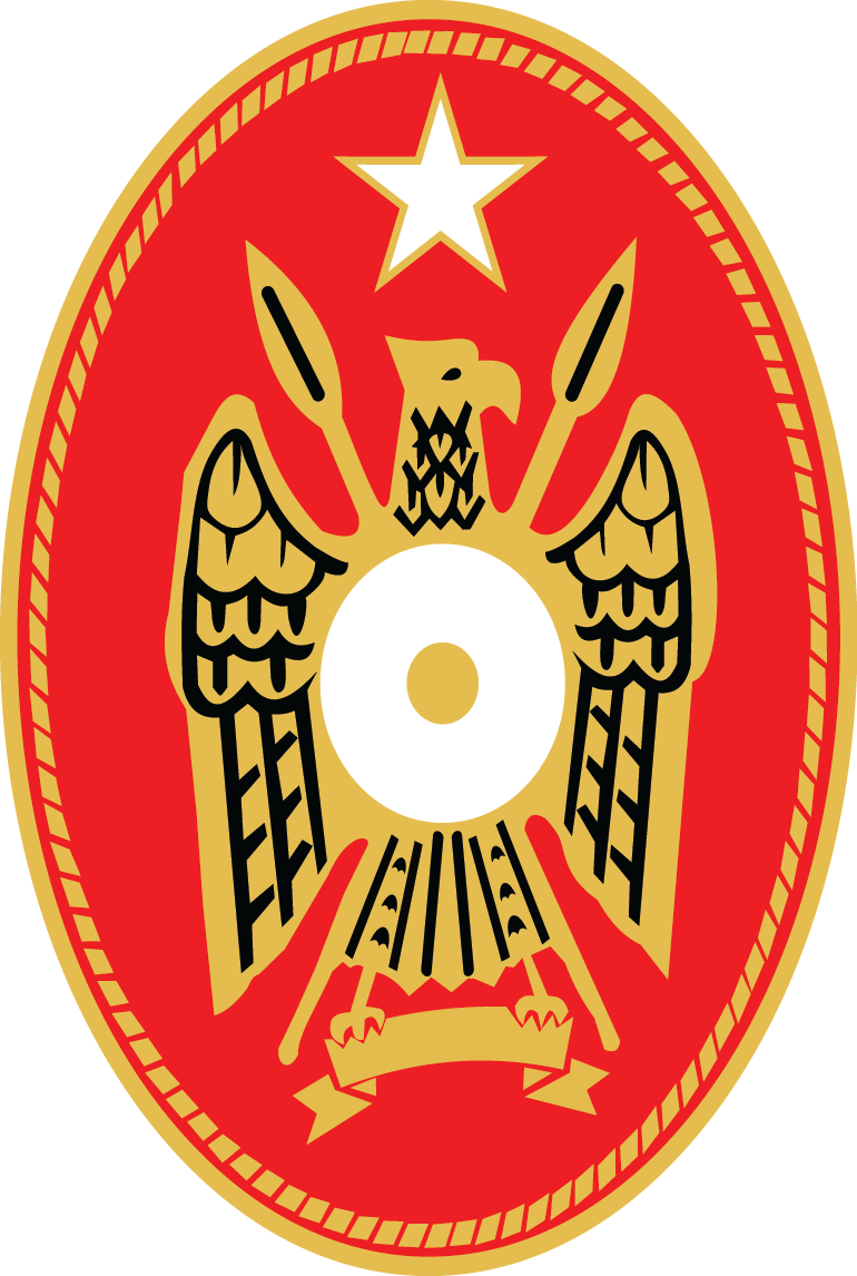 The armed forces logo